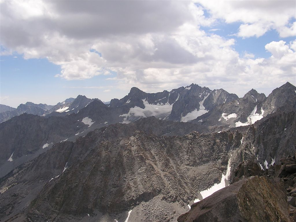 The Palisades' north faces, seen from Cloudripper